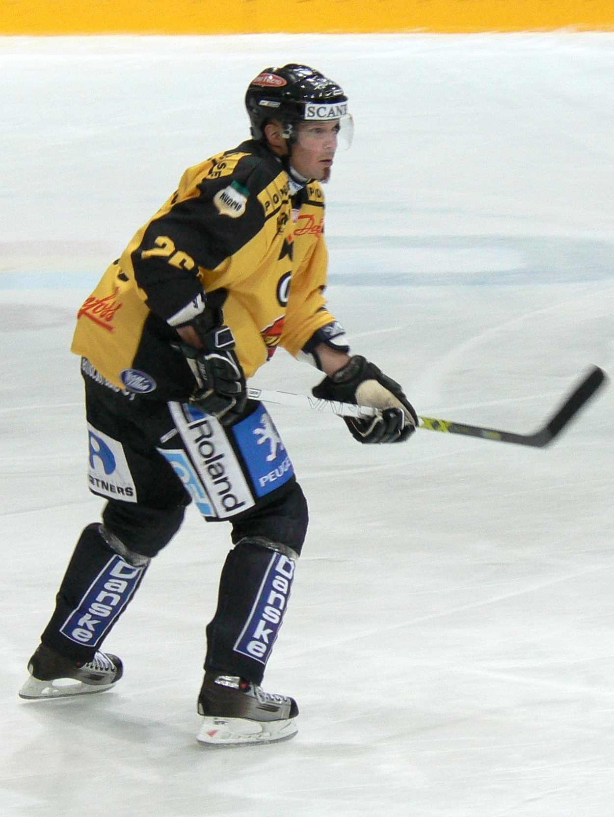 Finnish ice hockey defenseman Mika Strömberg playing for KalPa Kuopio in November 2007.